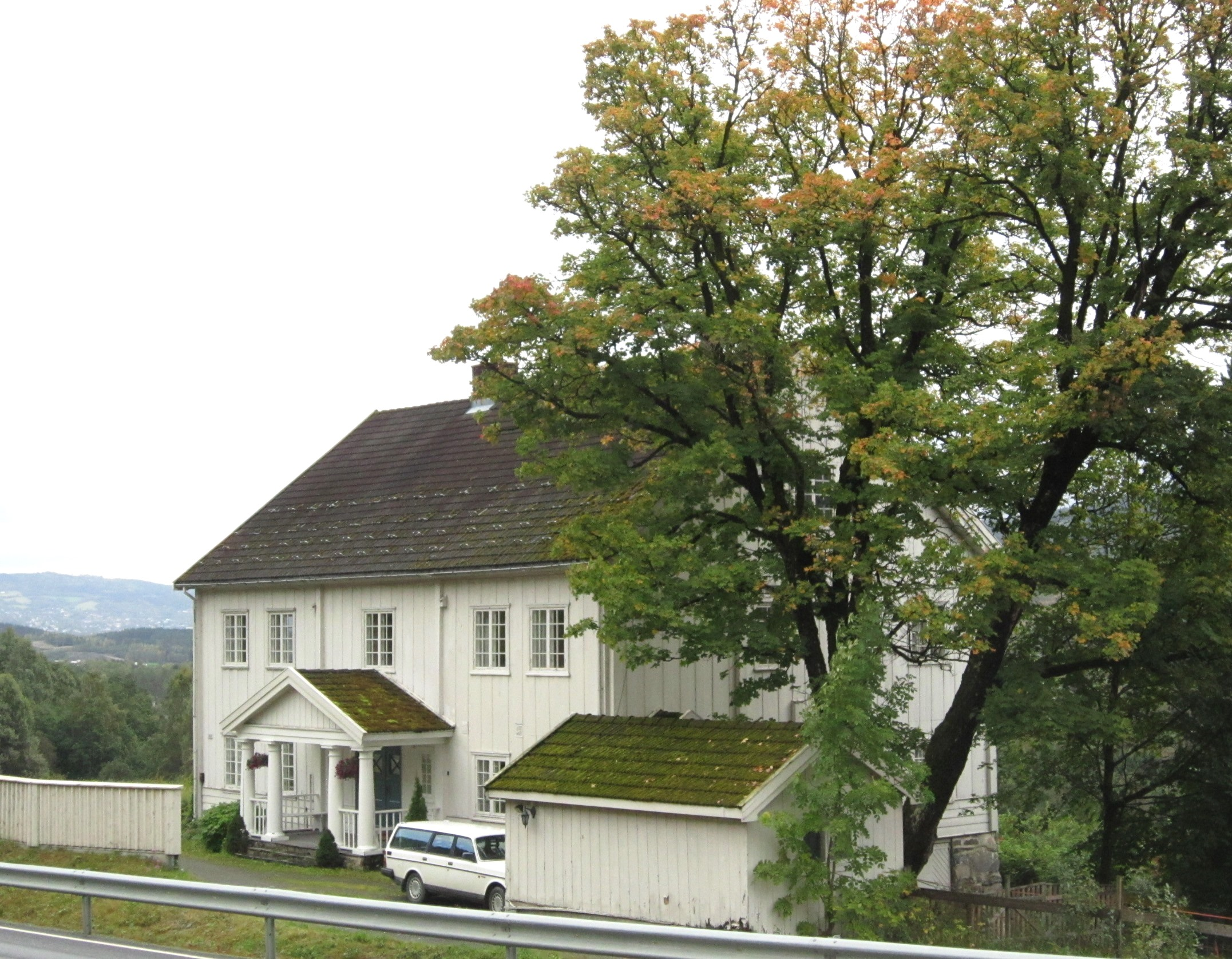 Fåberg parsonage, Lillehammer, Norway